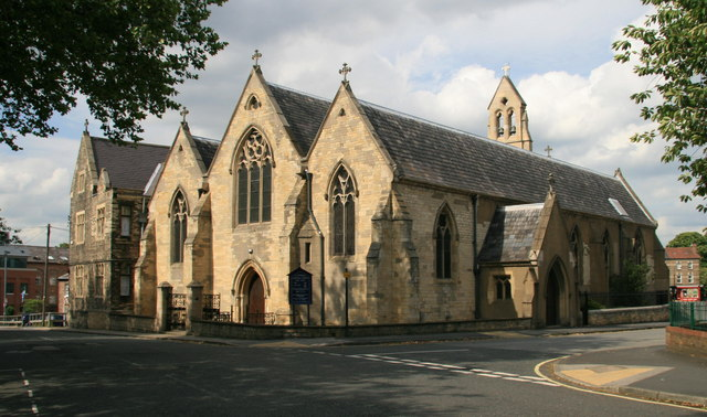 St George's Catholic Church Situated at the junction of Margaret Street and George Street, St George's opened in 1850. Designed by Joseph Hansom, famous for the Hansom cab, it was built chiefly to serve the growing immigrant Irish Catholic population of the Walmgate area of York.